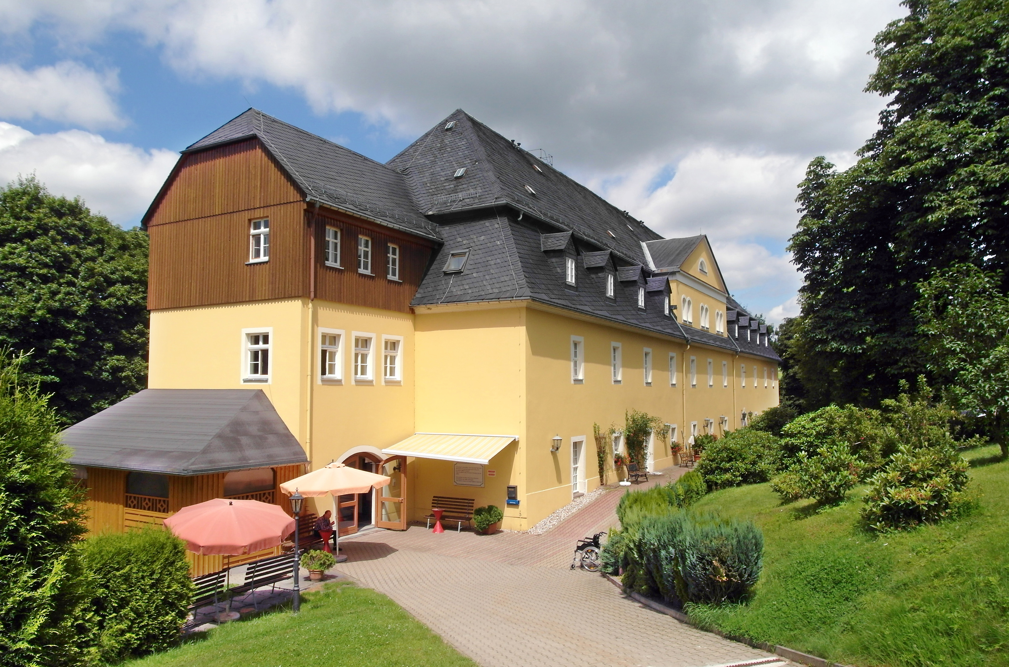 18.07.2016 09526 Dörnthal (Gemeinde Pfaffroda): Herrenhaus Dörnthal, Am Feierabendheim 2: Herrenhaus, 1798-1799 für Curt und Heinrich von Schönberg erbaut, die aber nicht hier sondern im Schloß Pfaffroda wohnten. In der DDR zunächst Tuberkuloseheim und ab 1964 Altersheim, Heute Pflegeheim der Sozialbetriebe Mittleres Erzgebirge. [SAM7036.JPG]20160718530DR.JPG(c)Blobelt